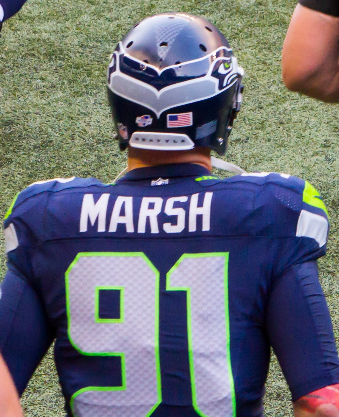 in 2014 preseason.